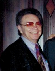 Wendy Bagwell in 1992